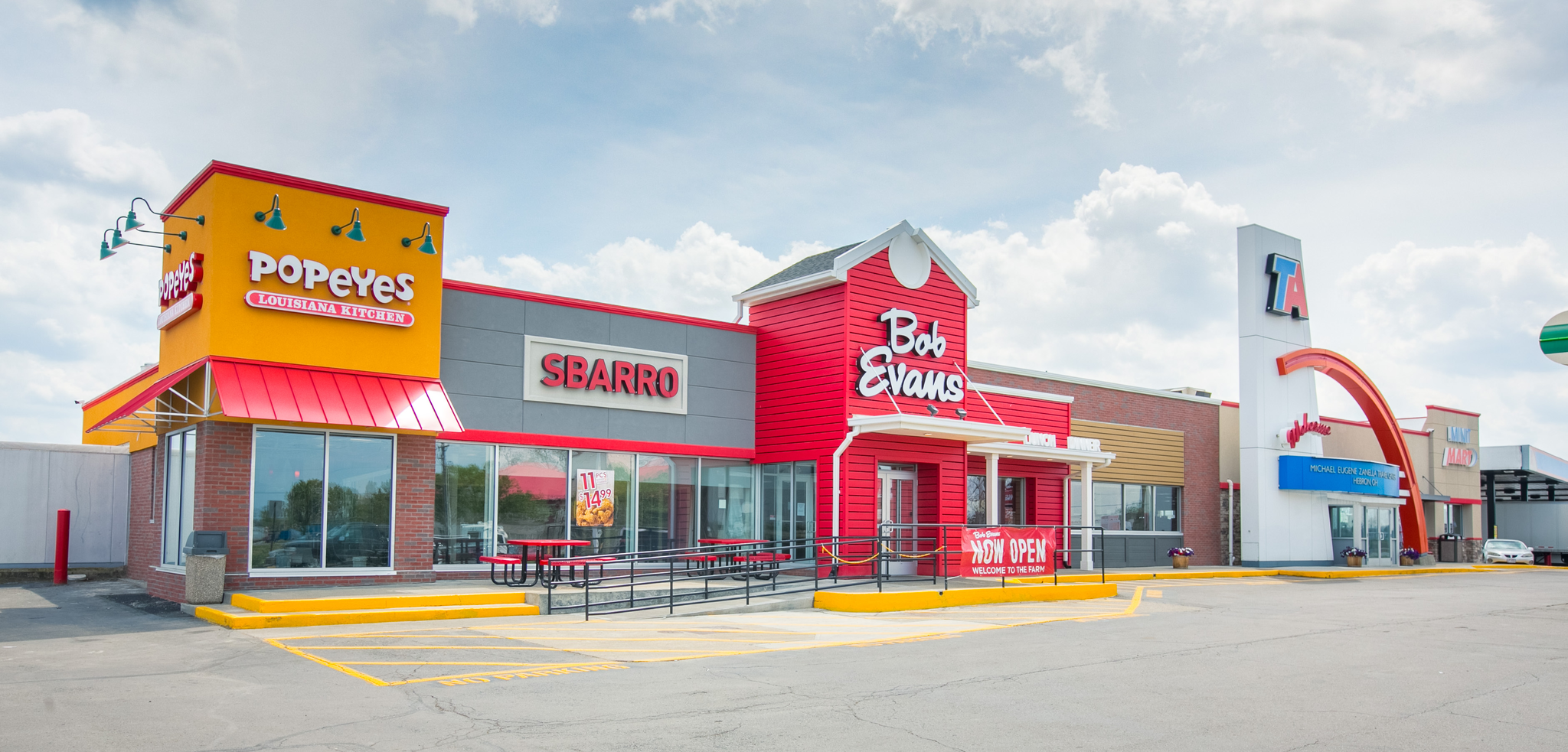 TravelCenters of America